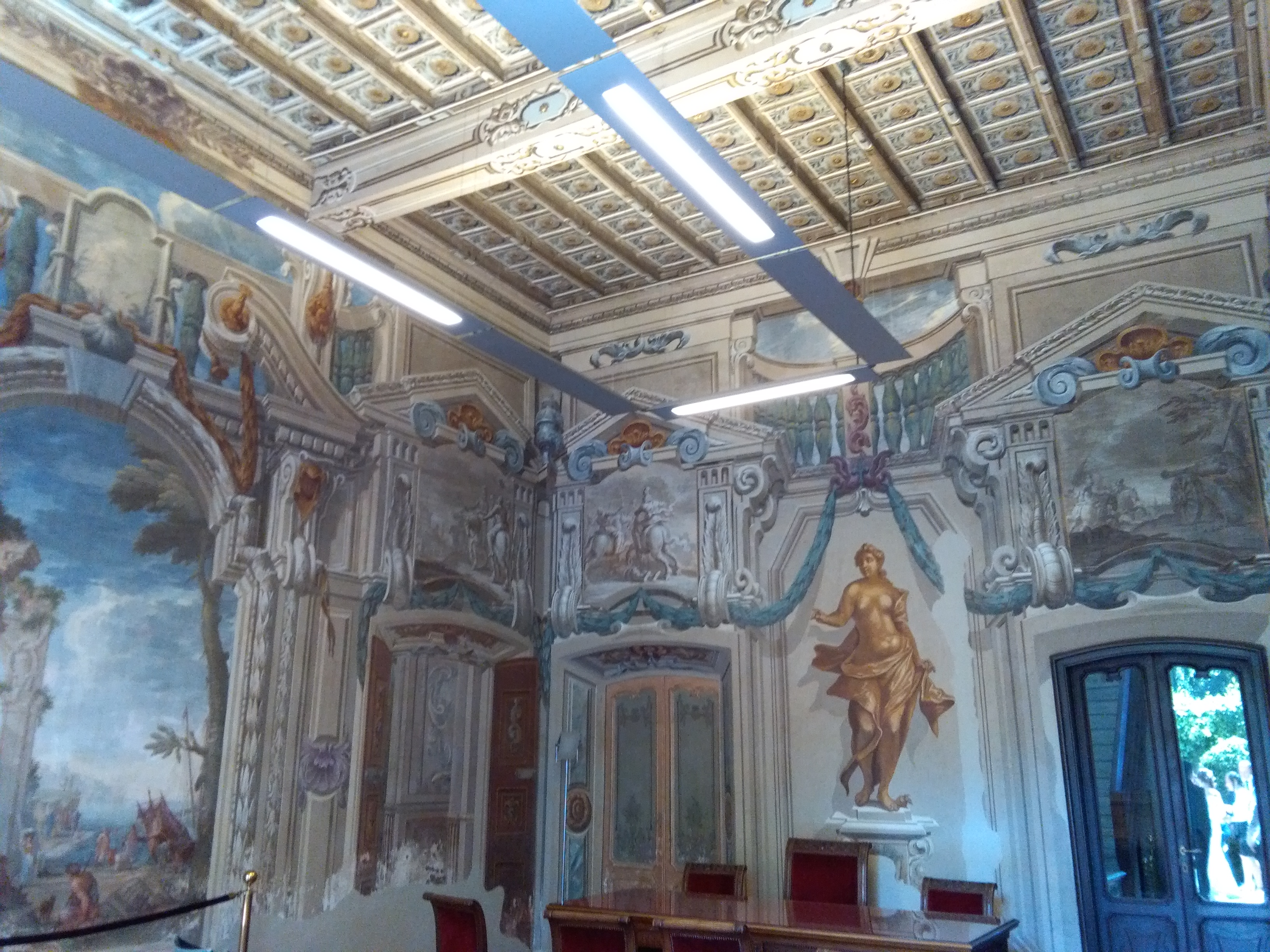 Battle's_room